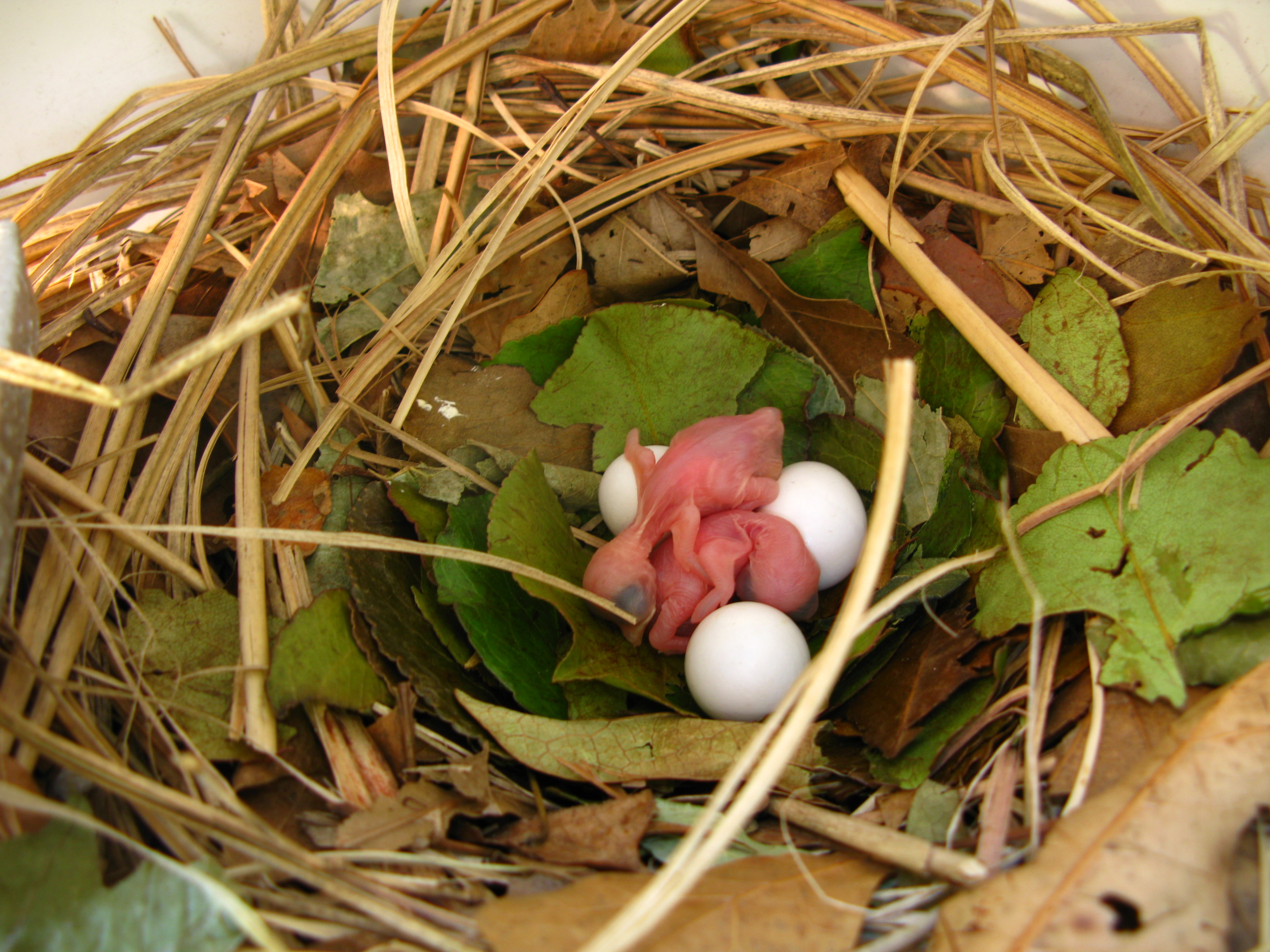 Purple Martins eggs and small chicks in a nestbox in Tulsa, Oklahoma, USA. May 18, 2010 nest check in colony : 32 eggs; 2 young; 7 nests.